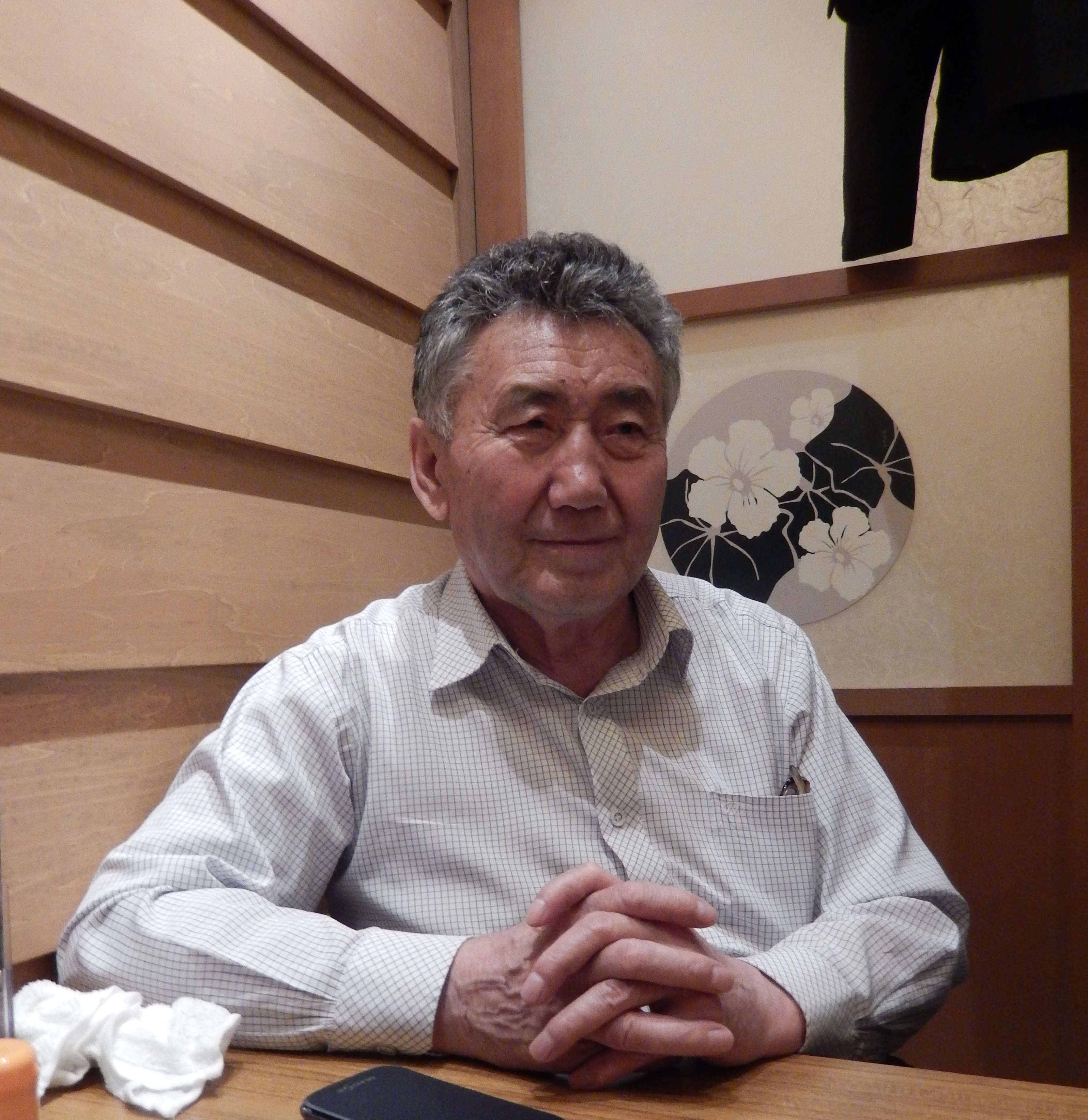 Prof. Wushour Silamu at a meeting of ISO/IEC JTC1 SC2 WG2 in Matsue, Japan, October 2015.